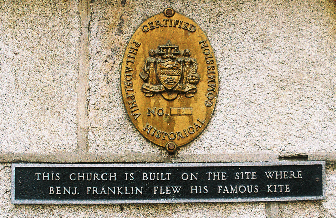 Plaque commemorating Benjamin Franklin's kite experiment on the site of St. Stephen's Episcopal Church, Philadelphia, Pennsylvania, USA.